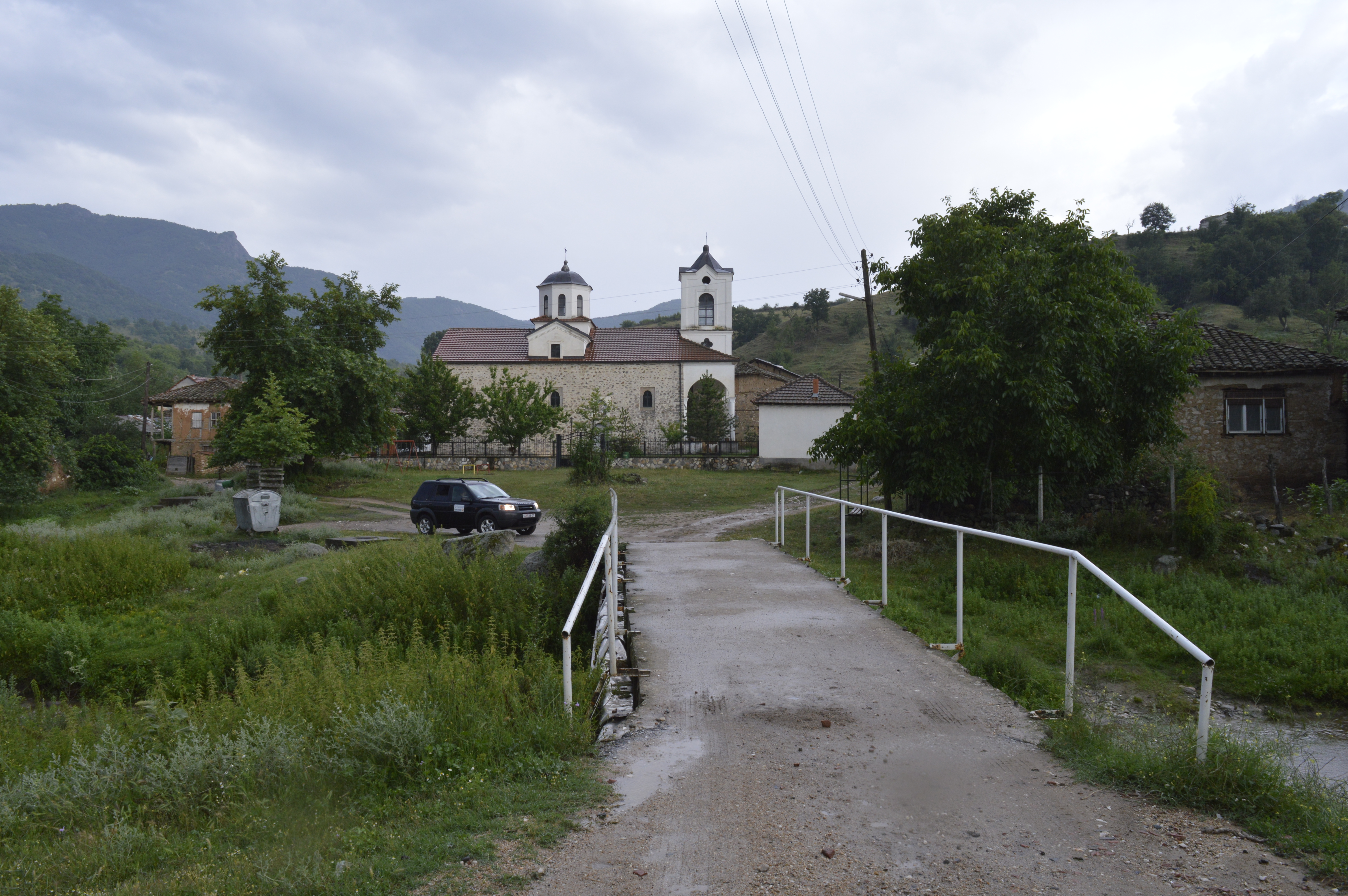 View of the Sts. Constantine and Helena Church in the village Omorani